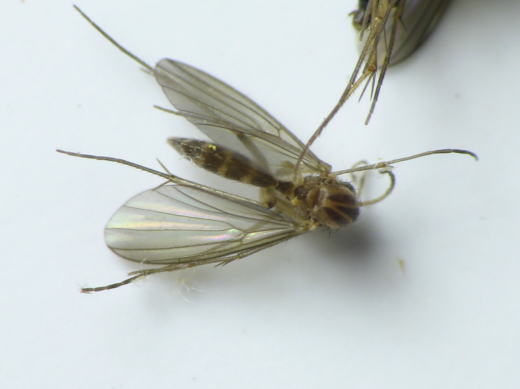 Fungus gnat, Trichonta, (2.5 mm) found in Jack-in-the-pulpit. Pennypack Restoration Trust, Montgomery County, Pennsylvania, USA.